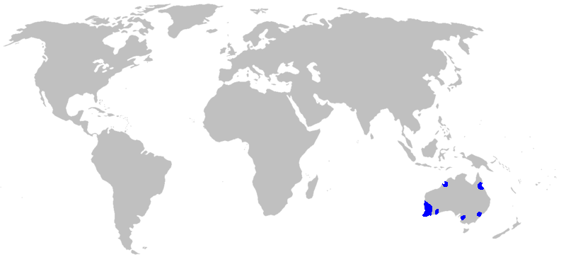 Plant family Boryaceae distribution map